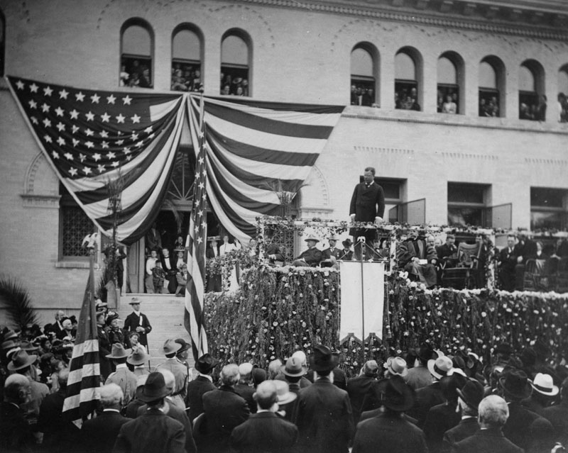 President Theodore Roosevelt addresses a large crowd outside of Pearsons Hall on the campus of Pomona College in Claremont. The president was met at the local Sante Fe train station and drawn by students in a carriage to the Hall where a platform had been built and decorated with the colors of both Harvard University and Pomona College. The local newspaper reported that thousands came to hear the President, who spoke for 25 minutes without a microphone. Before he left the campus, he planted a California oak tree in front of the hall. Roosevelt was then escorted back to the train station and departed for Los Angeles, via Pasadena.